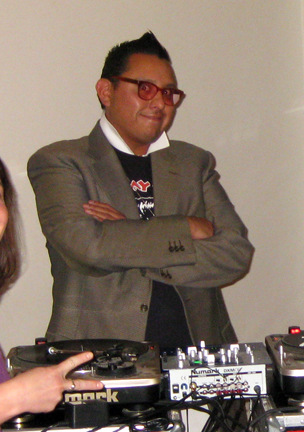 Micah Wesley, Muscogee Creek and Kiowa, artist, curator and DJ. Son of the late Tillier Wesley, Muscogee Creek artist